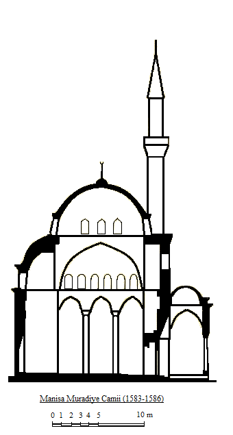 Plan of the Muradiye Mosque in Manisa, Turkey.